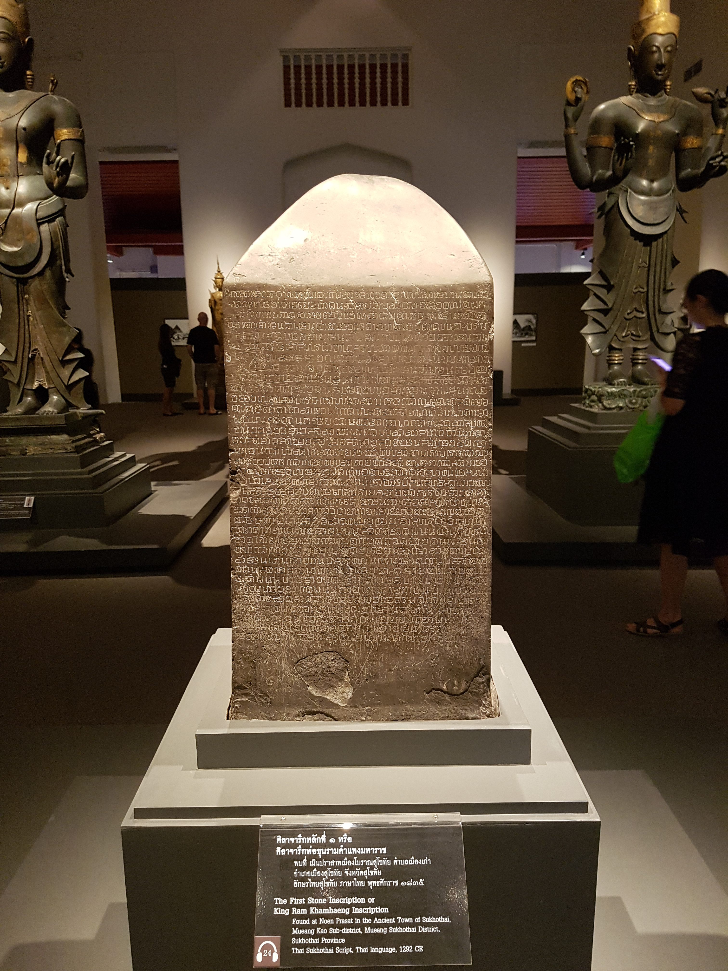 Place: Siwamok Phiman Hall, Bangkok National Museum, Bangkok, Thailand. Item: Inscription 1 (จารึกหลักที่ ๑) or Ram Khamhaeng Inscription (จารึกพ่อขุนรามคำแหง), allegedly created in 1835 BE (1292/93 CE).